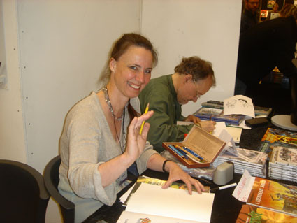 Sussi Bech and Ingo Milton, in the Gimle tegneseriestudio's stand at the Komiks.dk 2006 comics festival in København, Denmark.